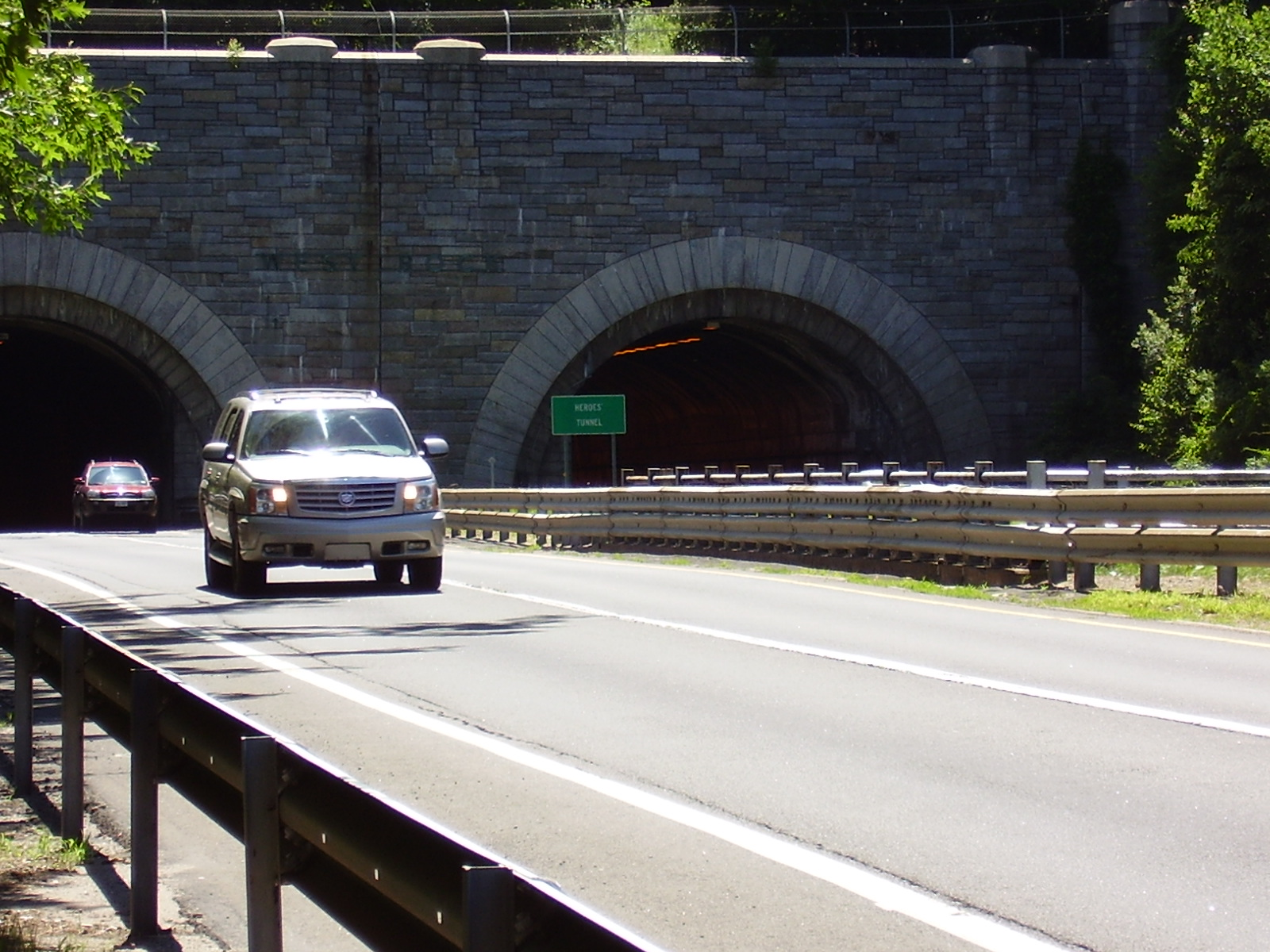 West Rock Tunnel (Heroes Tunnel) entrance at the Hamden-New Haven town line (Connecticut).